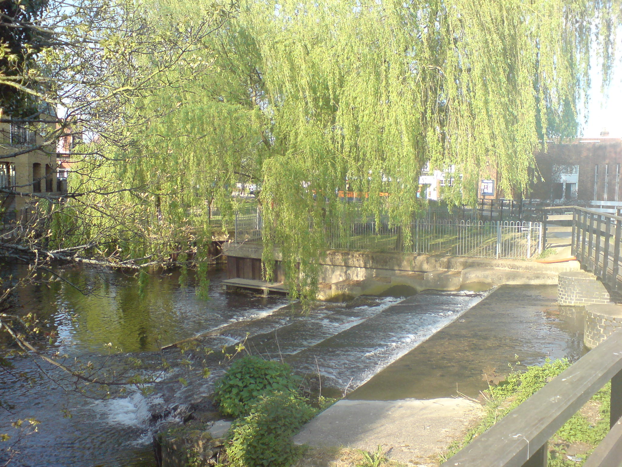 Hertford Castle Weir — stepped drop confluence. Author: Jamsta